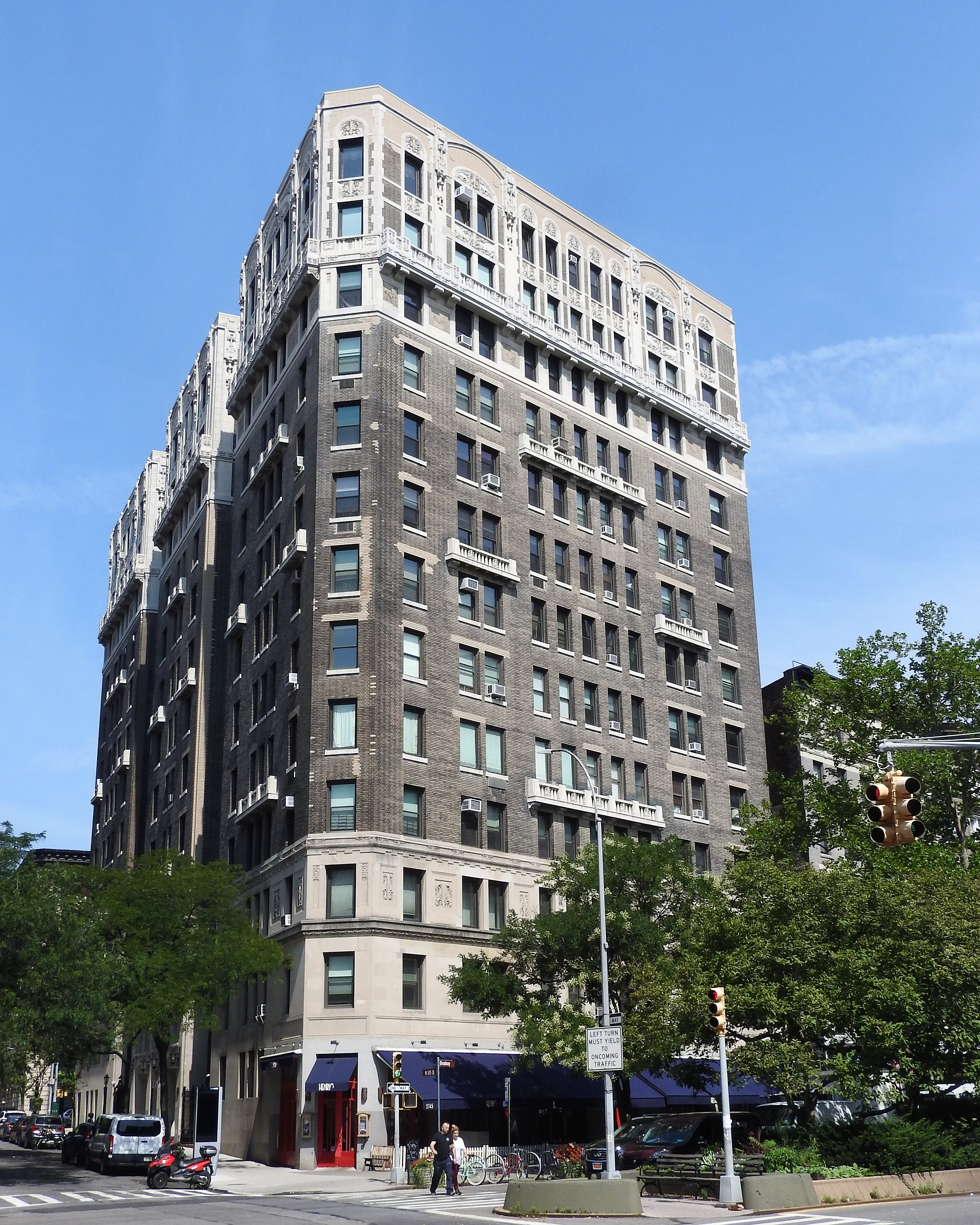 Looking northwest on a sunny morning at better side of this building